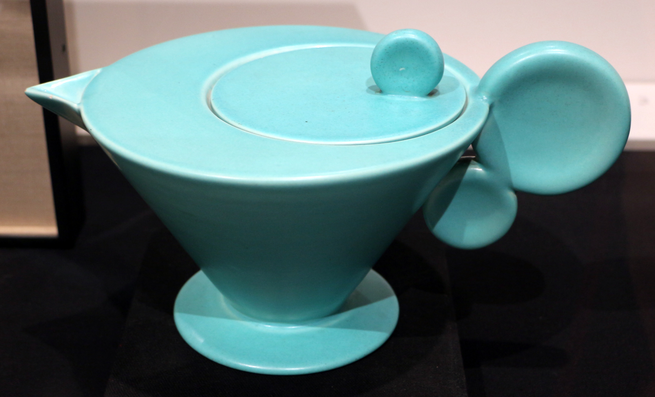 Collections of the Milwaukee Art Museum